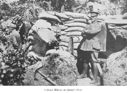 Col Malone at Quinn's Post, 1915. Published in 1928 in "The Wellington Regiment (NZEF) 1914 - 1919" by Cunningham, Treadwell and Hanna. Ferguson & Osborn, Wellington